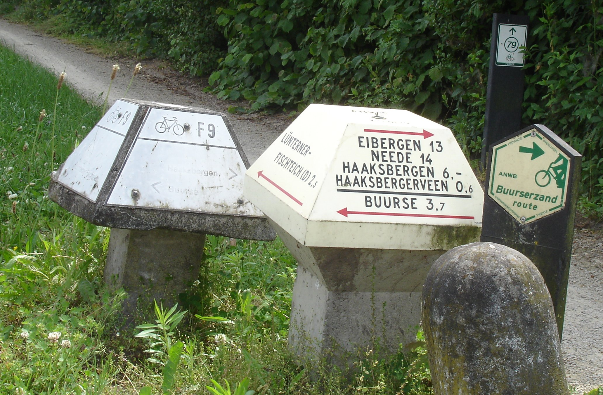 A German and a Dutch 'mushroom' signpost